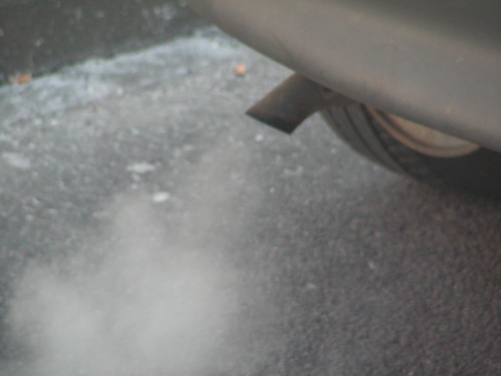 Exhaust from the tailpipe of a car. In this case, it is probably mostly water vapour that is seen.